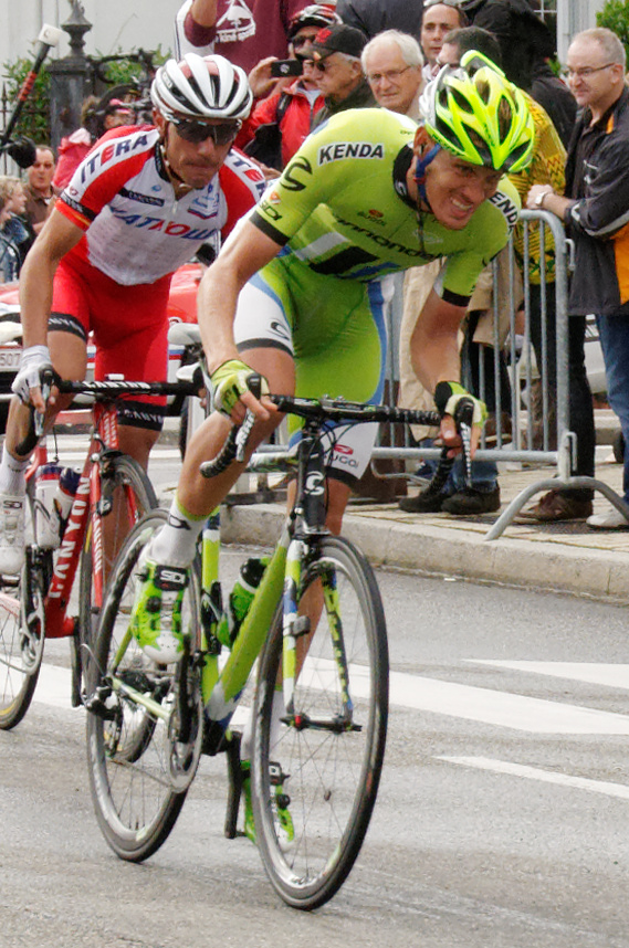 Personality rights warningAlthough this work is freely licensed or in the public domain, the person(s) shown may have rights that legally restrict certain re-uses unless those depicted consent to such uses. In these cases, a model release or other evidence of consent could protect you from infringement claims.